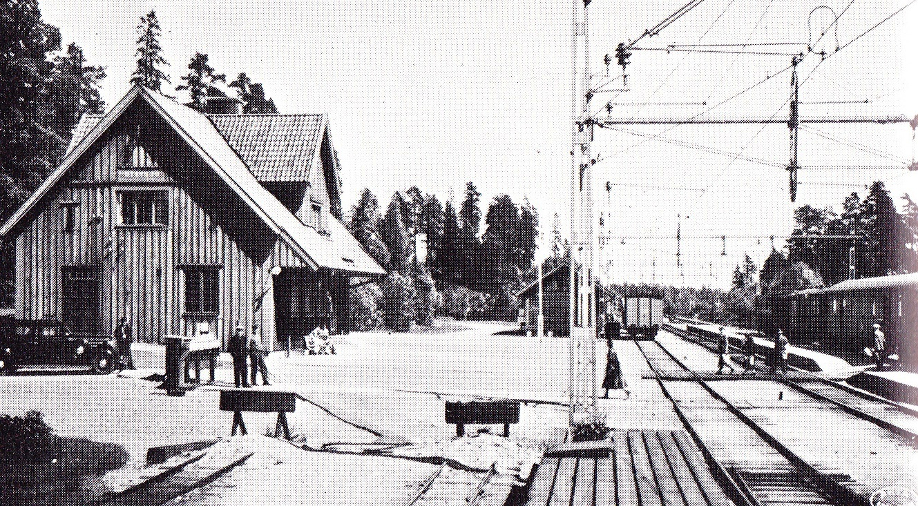 Stavsjö railway station (Swedish State Railways, SJ) in Sweden. The narrow-gauge tracks in the bottom left corner belongs to Stafsjö Järnväg. The SJ main line was electrified in 1932 and Stafsjö Järnväg was closed and the track lifted in 1939.